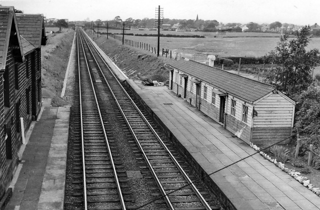 Barton & Broughton Station. View northward on West Coast Main Line, Preston - Lancaster section; station closed to passengers back on 1/5/39, to Goods on 31/5/65. (The station buildings were remarkably well-preserved after nearly 25 years!)